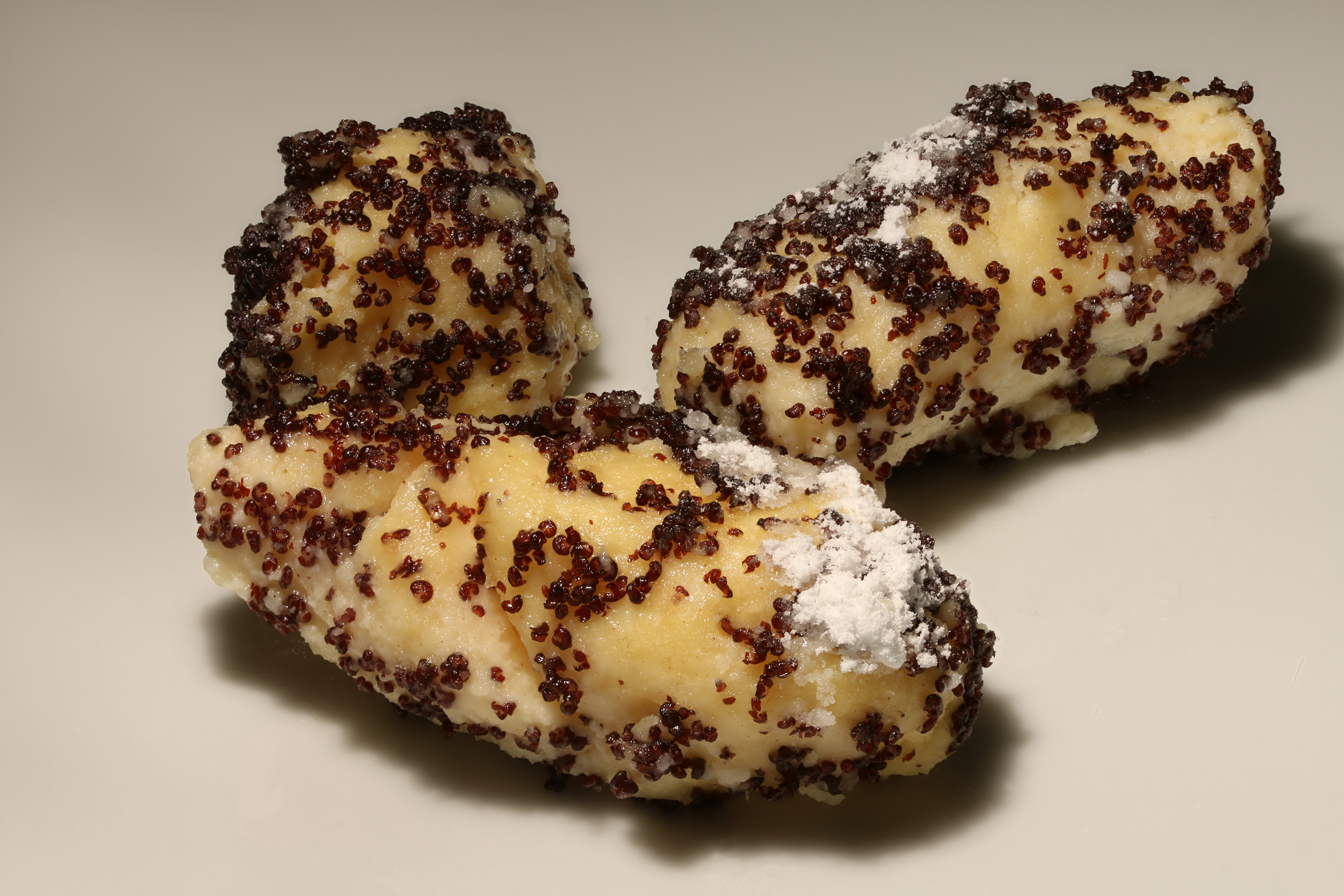 Mohnnudel